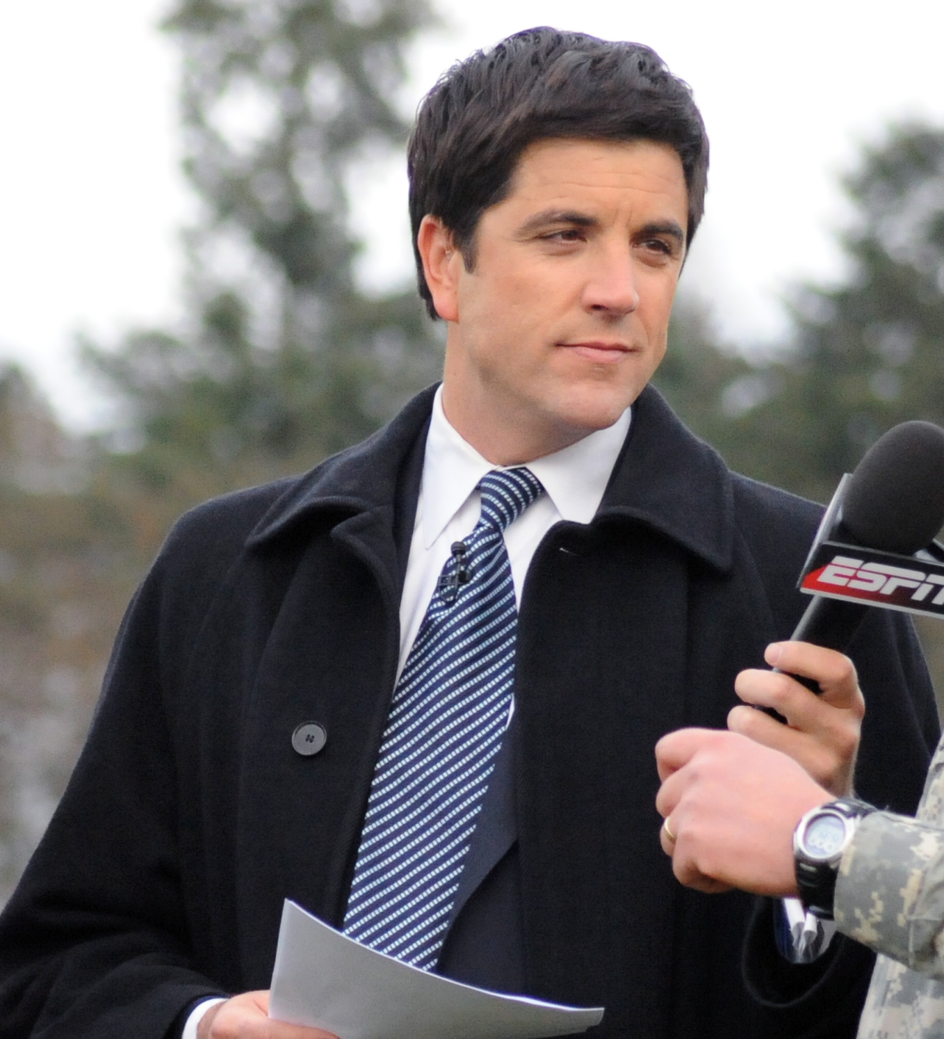 ESPN anchor Josh Elliott at Grafenwoehr on Veterans Day 2009. →This file has been extracted from another file: Josh Elliott and Hannah Storm.jpg